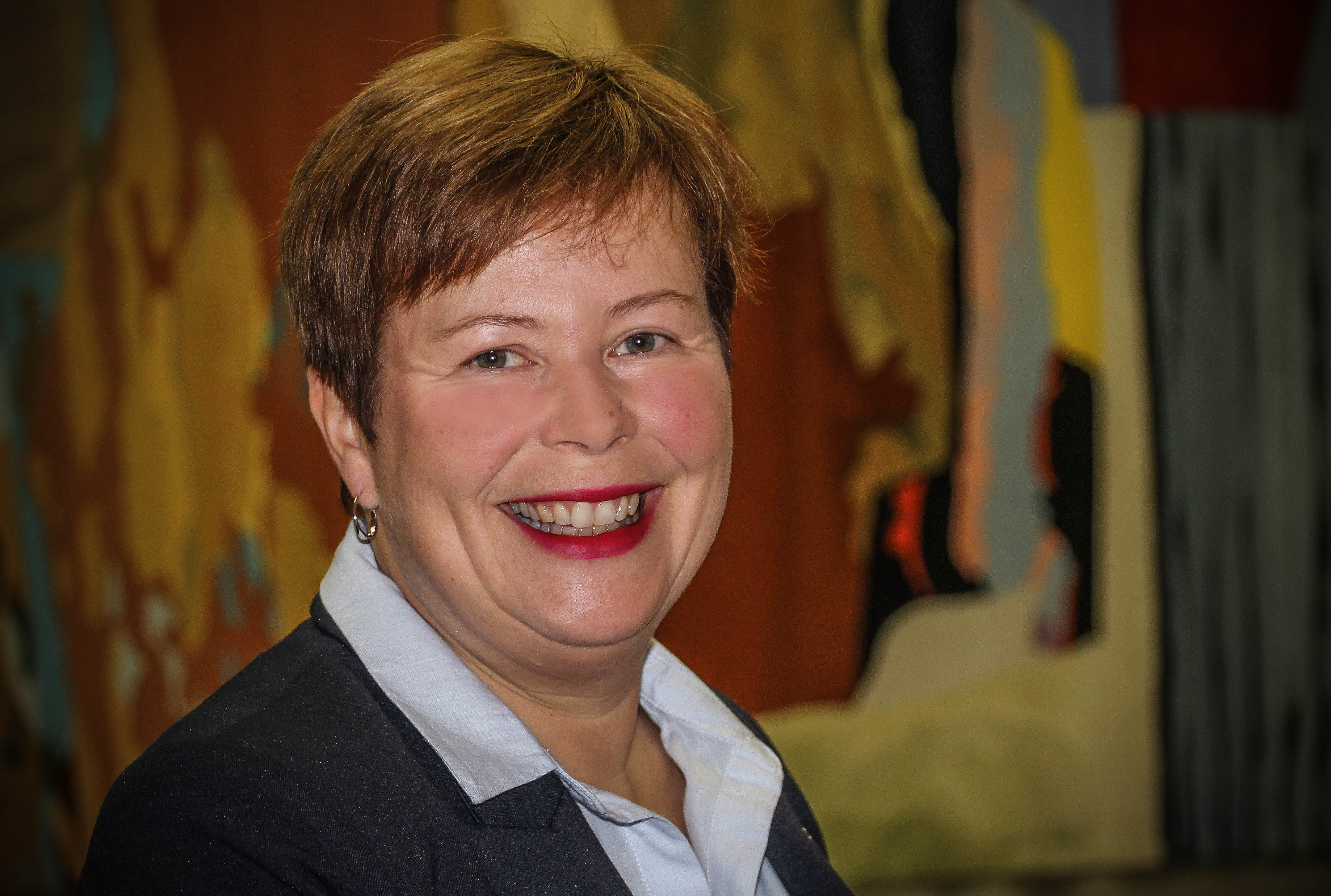 Siv Mossleth Foto: Ragne B. Lysaker, Senterpartiet